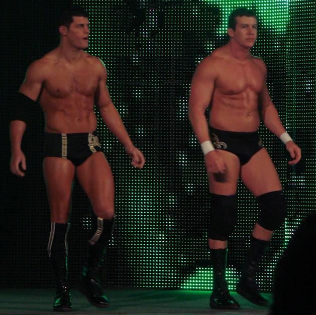 The team of Ted DiBiase & Cody Rhodes